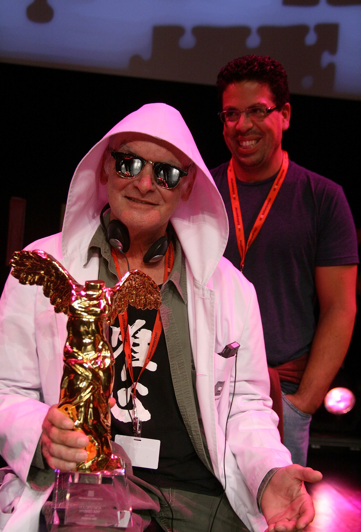 Joe Davis with his Golden Nica of the Prix Ars Electronica 2012 in the category Hybrid Art for his 'Bacterial Radio' (Brucknerhaus in Linz, Upper Austria).